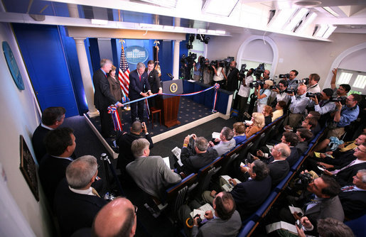 President George W. Bush and Mrs. Laura Bush participate in the ribbon-cutting ceremony to officially open the newly renovated James S. Brady Press Briefing Room Wednesday morning, July 11, 2007, at the White House.